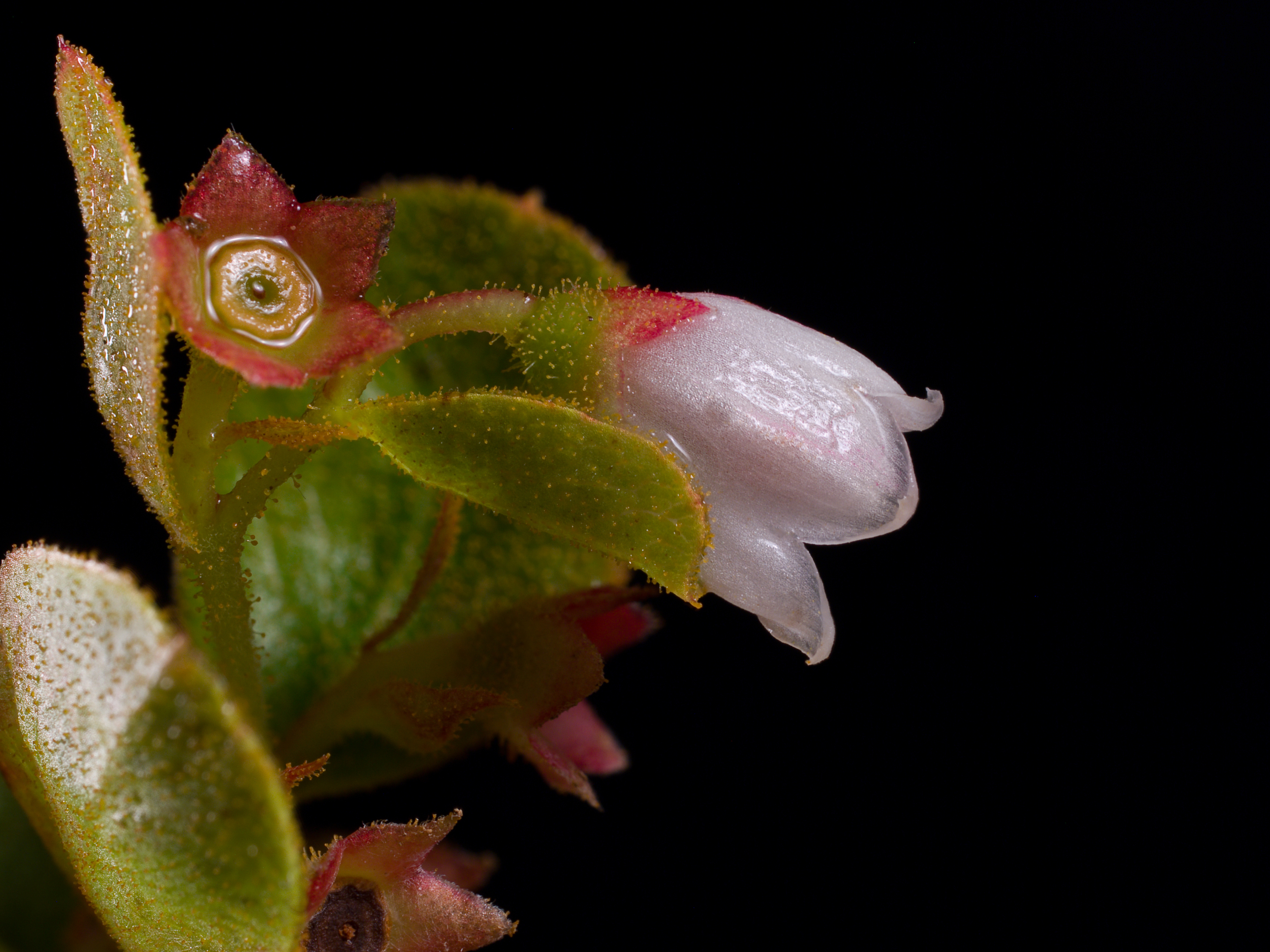 Dwarf Huckleberry (Gaylussacia dumosa)